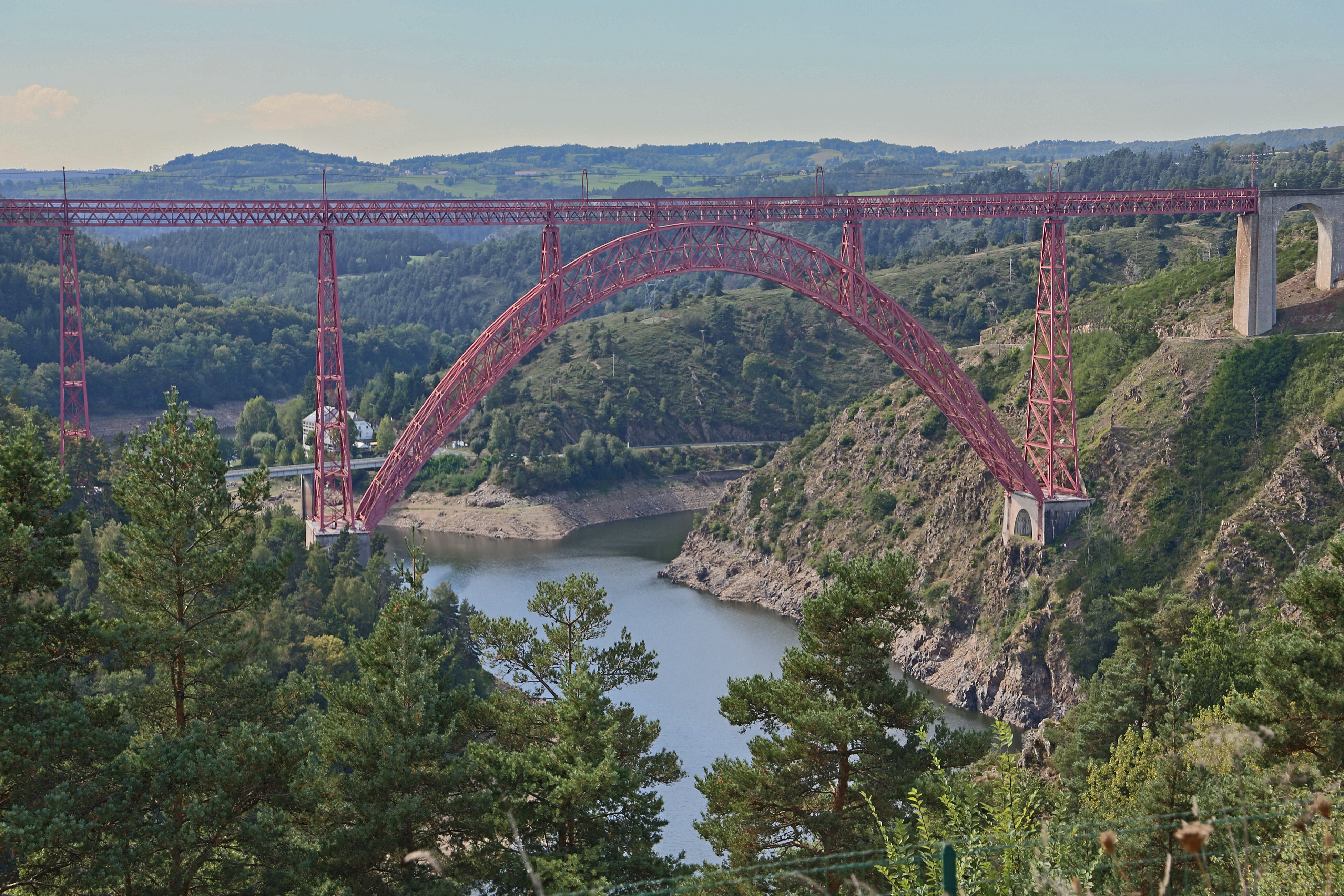 Garabit Viaduct (Viaduc de Garabit), a steel railway bridge built by Gustave Eiffel in the years 1880-1884. At 565 meters in length, the bridge spans the Truyère River near the town of Ruynes in the Cantal, France, at a height of 95 meters